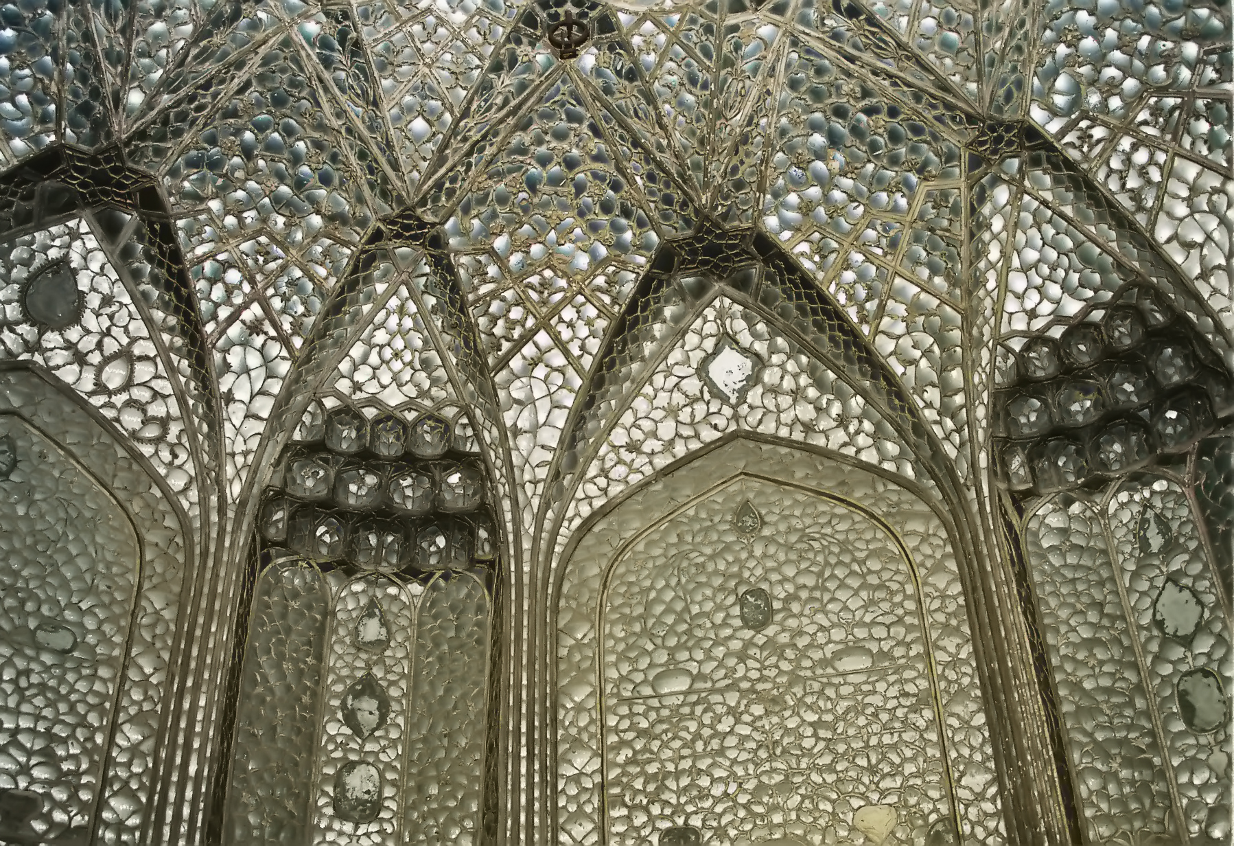 Lahore Fort complex (including Moti Masjid, Naulakha Pavilion, Sheesh Mahal and others) This is a photo of a monument in Pakistan identified as the PB-67